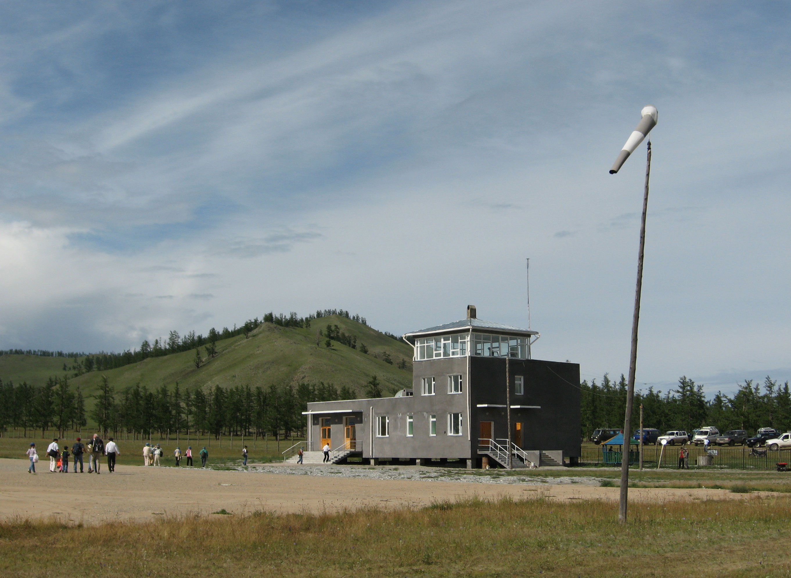 Airport (airstrip) building in Khatgal, Mongolia